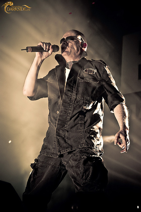 The Sisters of Mercy concert at Moscow, Russia (Andrew Eldritch)